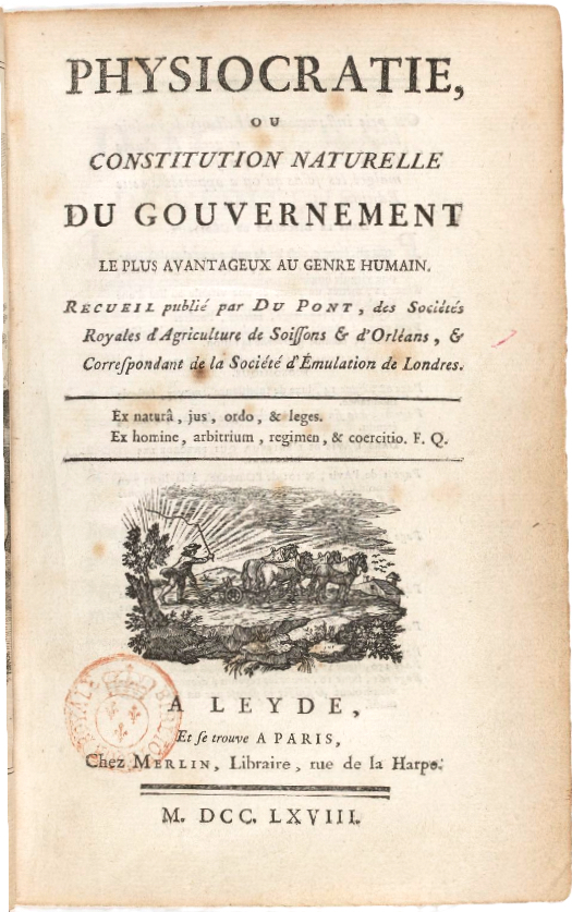 Front page of Pierre Samuel du Pont de Nemours' Physiocratie ou Constitution naturelle du gouvernement le plus avantageux au genre humain